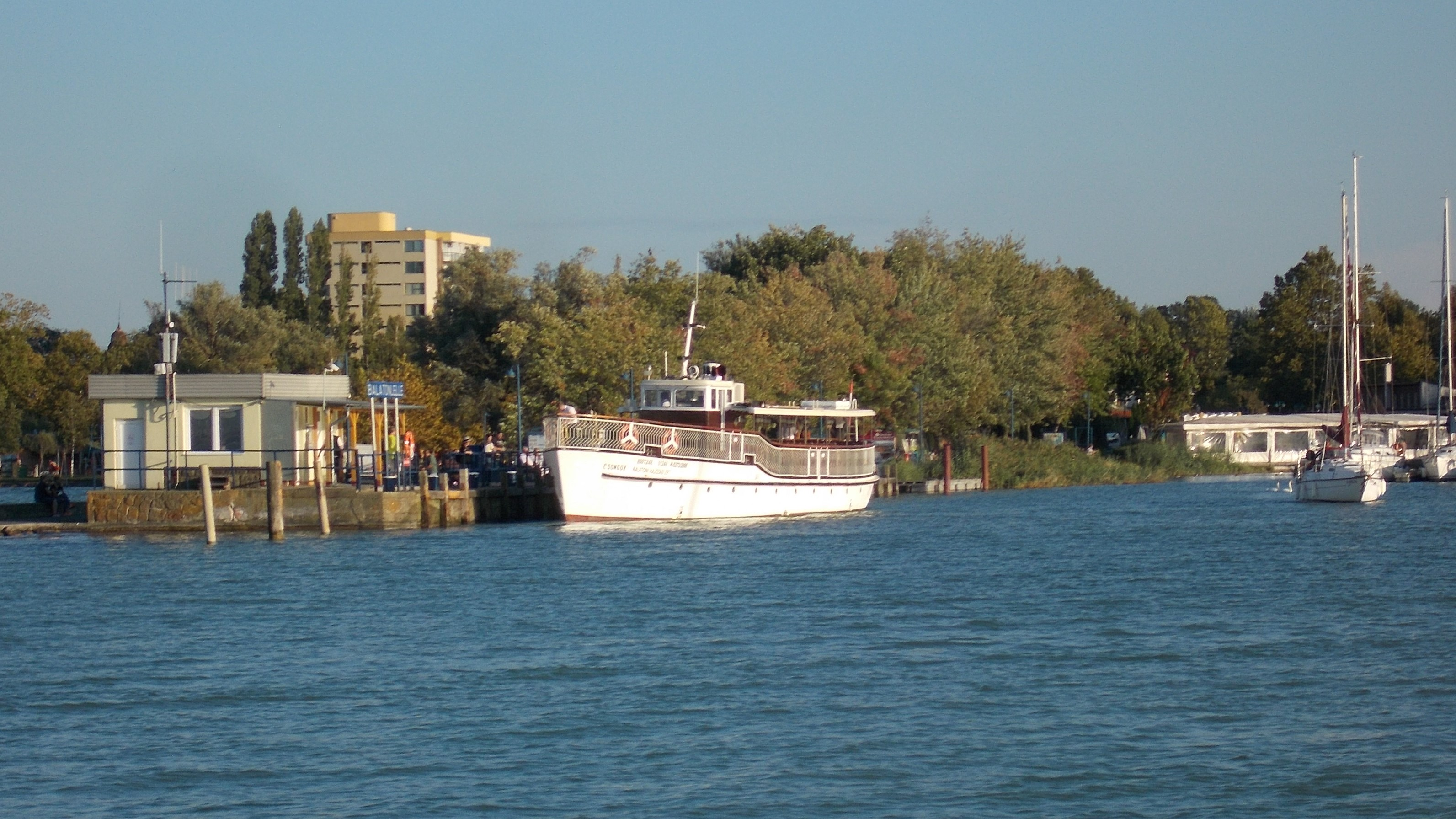 Csongor (ship, 1927) at Balatonlelle ship station from Port entrance in Somogy County, Hungary.